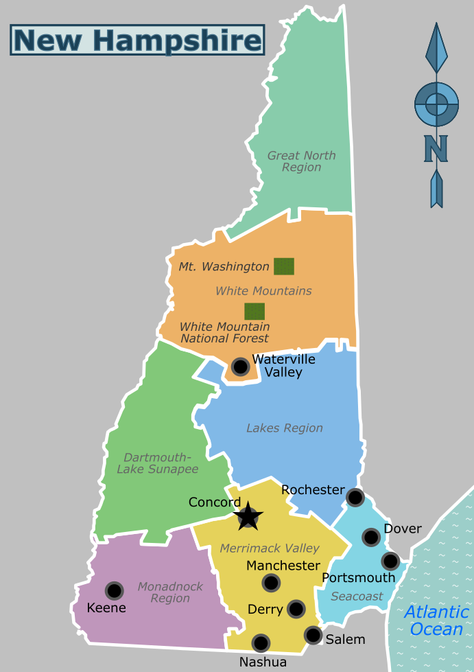 Regions of New Hampshire with Cities. Map showing New Hampshire's travel regions, cities, and major destinations. Forest green: :en:Dartmouth Lake Sunapee Sea green: :en:Great North Region Blue: :en:Lakes Region (New Hampshire) Purple: :en:Monadnock Region Yellow: :en:Merrimack Valley (New Hampshire) Cyan: :en:Seacoast (New Hampshire) Orange: :en:White Mountains (New Hampshire), New Hampshire